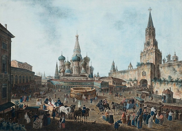 Фёдор Яковлевич Алексеев. Вид Красной площади с собором Василия Блаженного. 1800-е гг. Бумага, акварель, белила